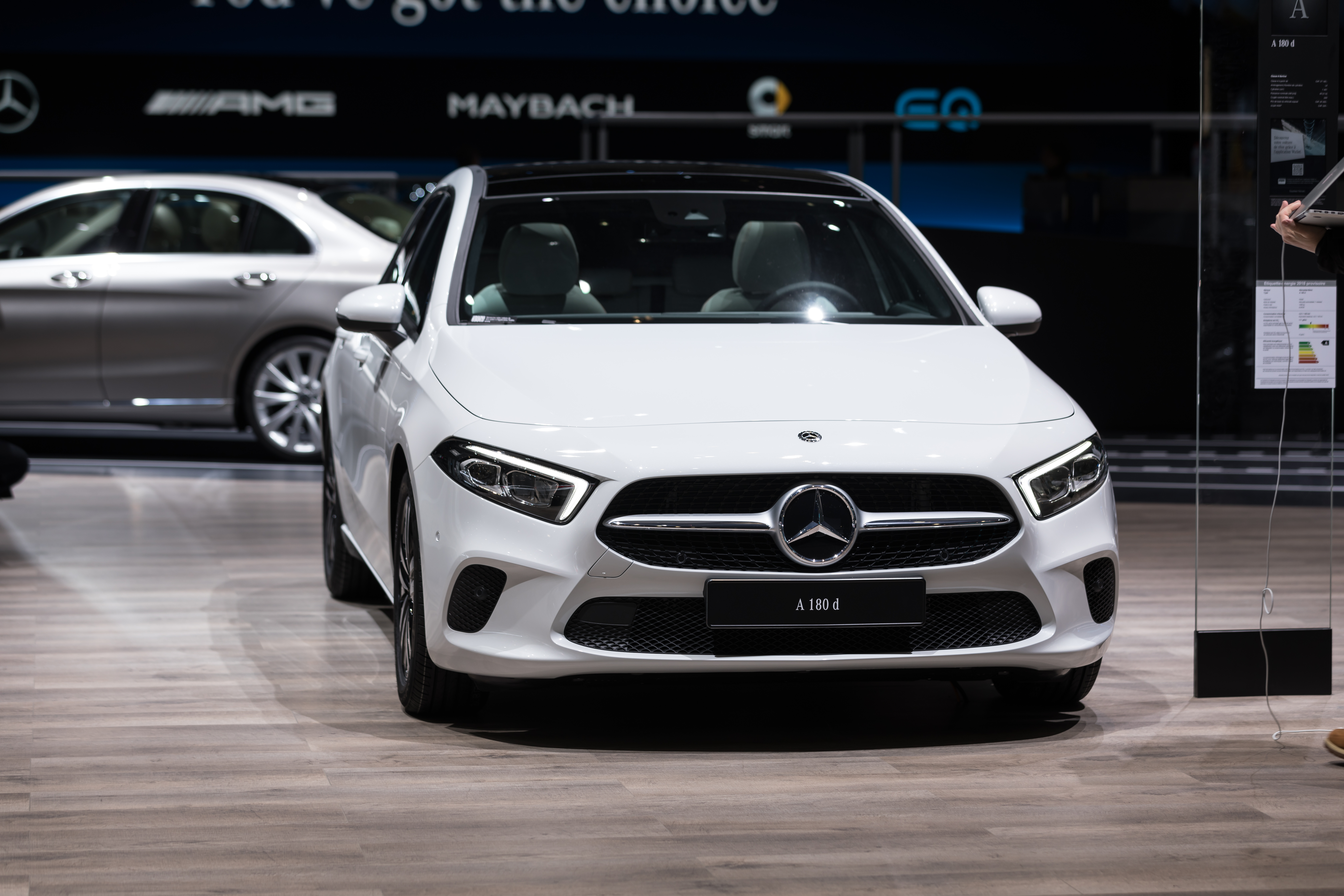 Geneva International Motor Show 2018